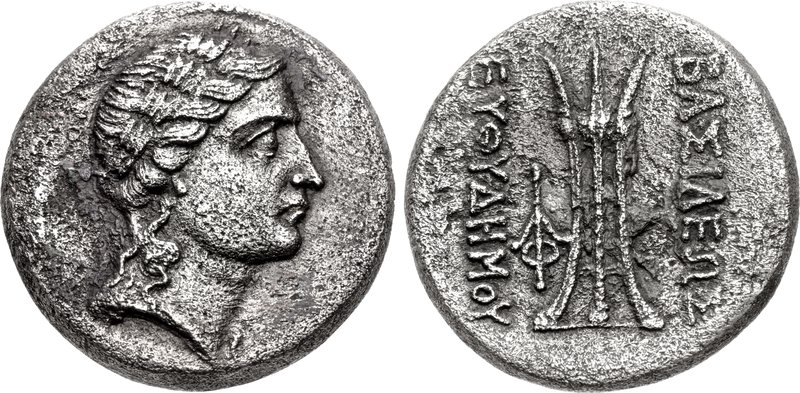 Euthydemos II cupro-nickel. Circa 185-180 BC. Cupro-Nickel Double Unit (23mm, 7.83 g, 12h). Laureate head of Apollo right / Tripod; monogram to inner left.